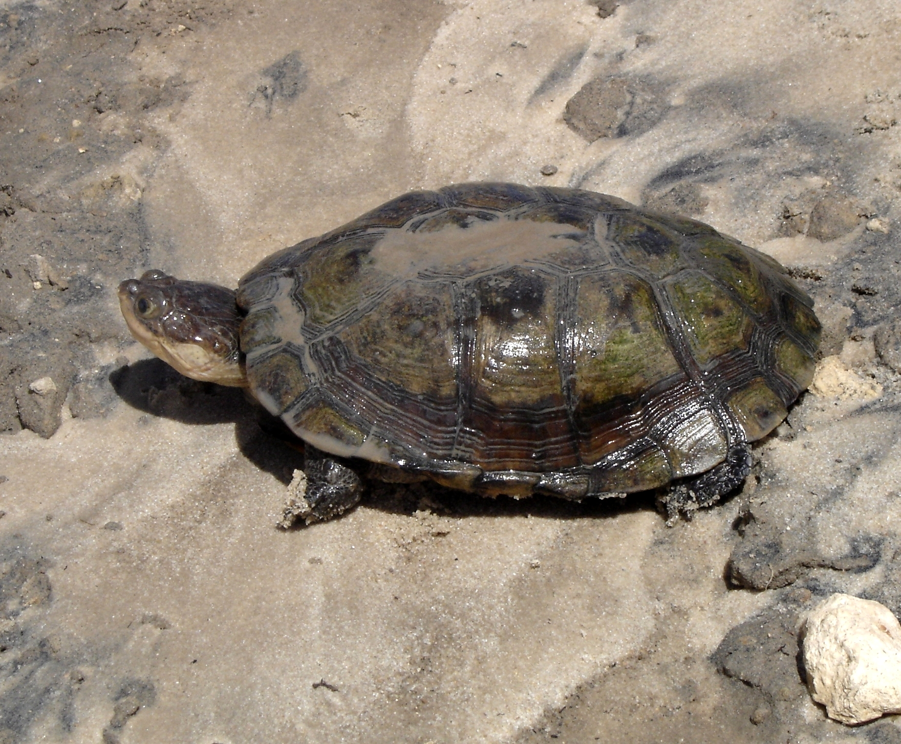 Freshwater turtle from a temporary pond on the road from Tsiombe to Beloha, in the Androy region of southern Madagascar